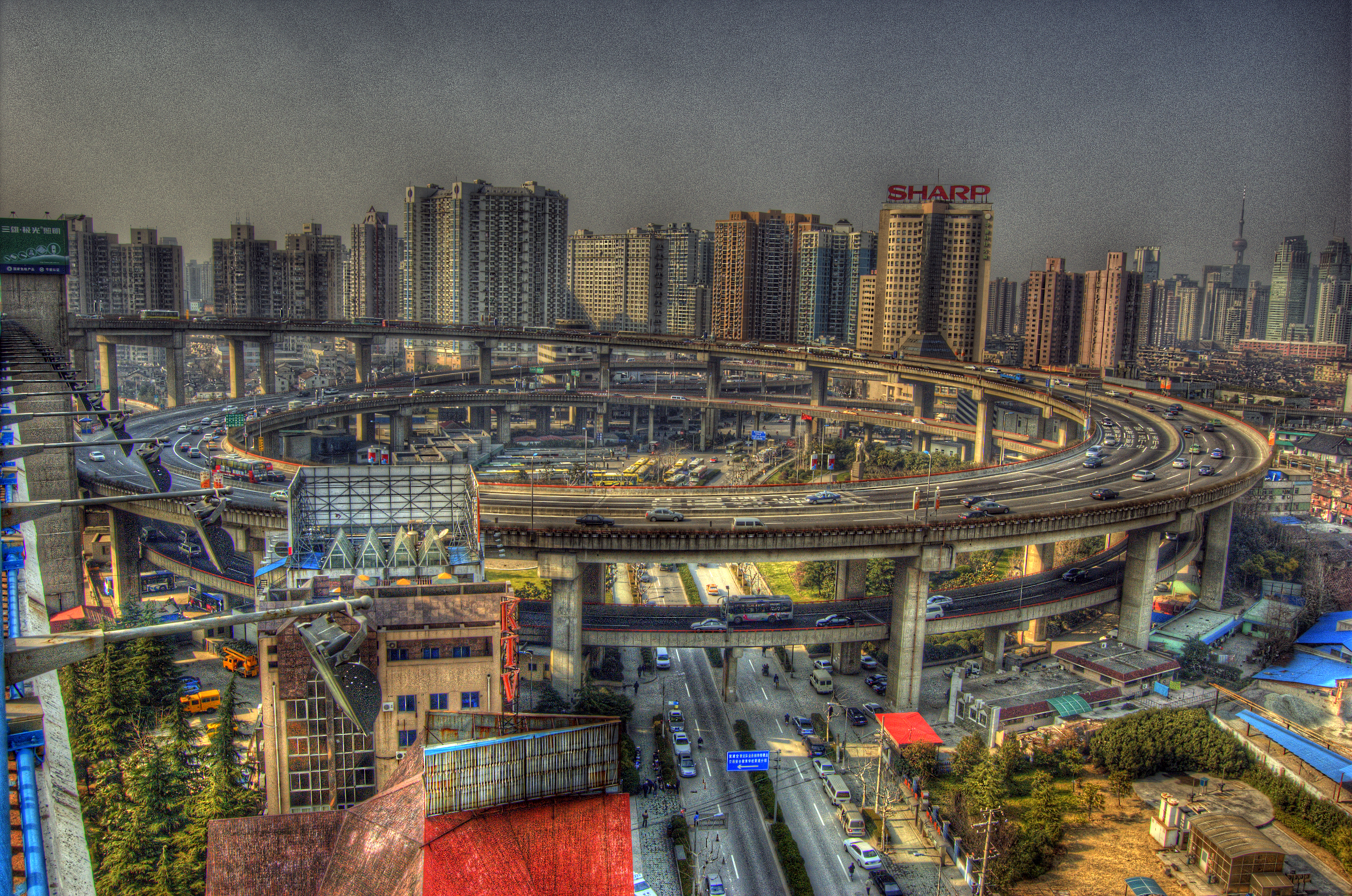 After crossing the Nanpu bridge from Pudong over to Puxi.